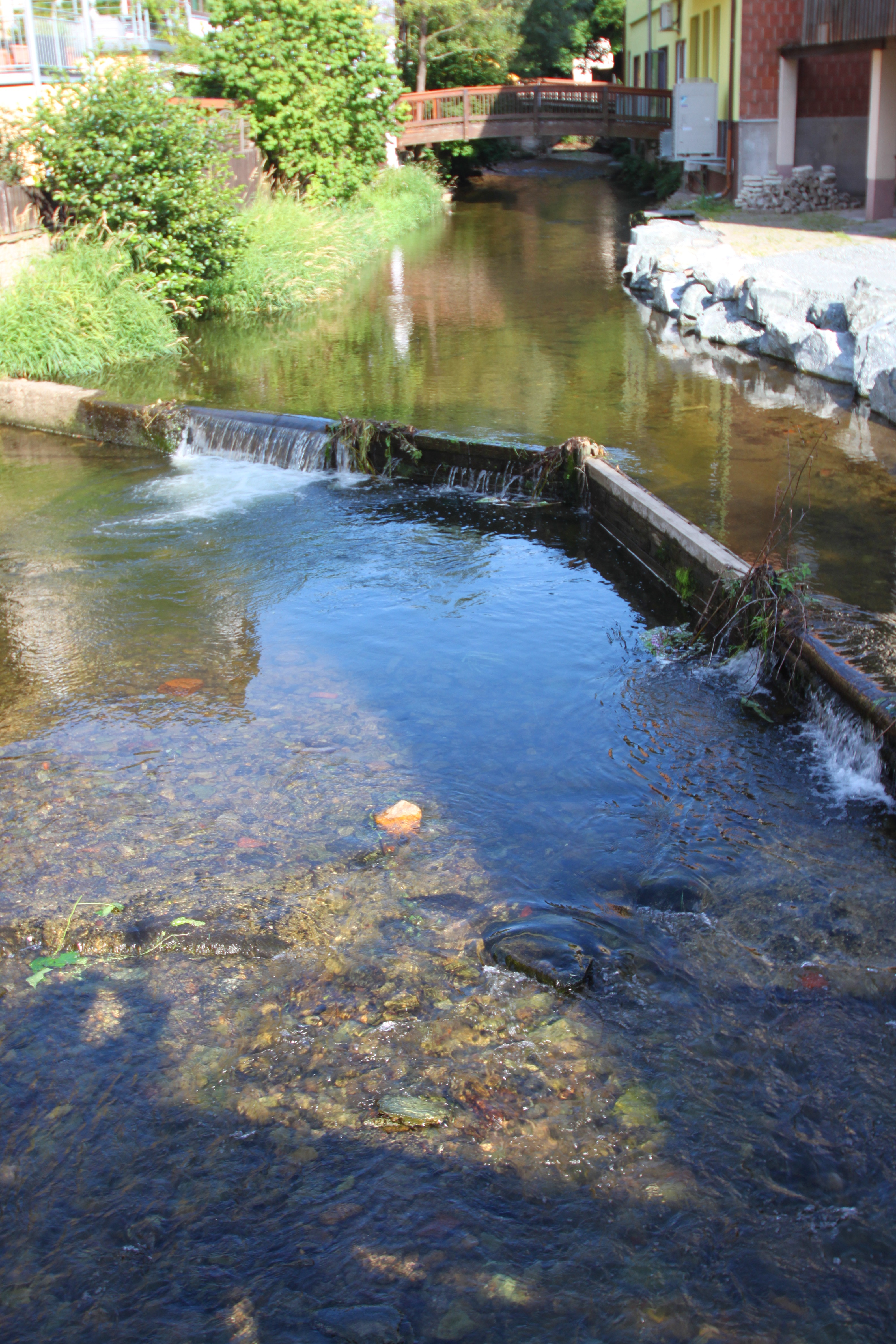 Die Schorgast in Wirsberg beim alten Rathaus